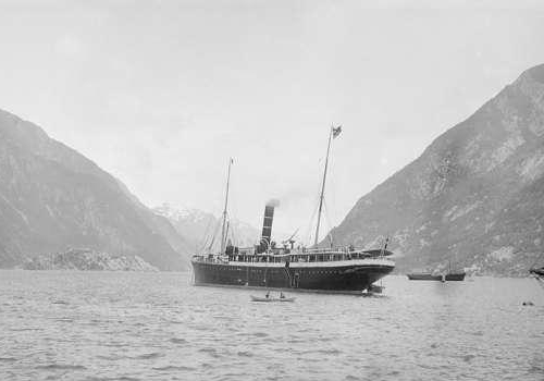 Norwegian passenger ship DS Mira in Odda. Between 1928 and 1941 she sailed in the coastal express service (Hurtigruten).